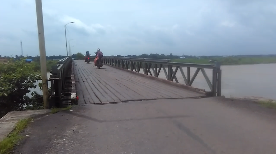 This is a bridge in Kawa Township, Bago District, Myanmar. မြန်မာဘာသာ: ပဲခူးမြစ်ကူးတံတား (ကဝ)။ ထုံးကြီးဘက်ခြမ်းမှ ရိုက်ယူထားသောပုံ ဖြစ်သည်။